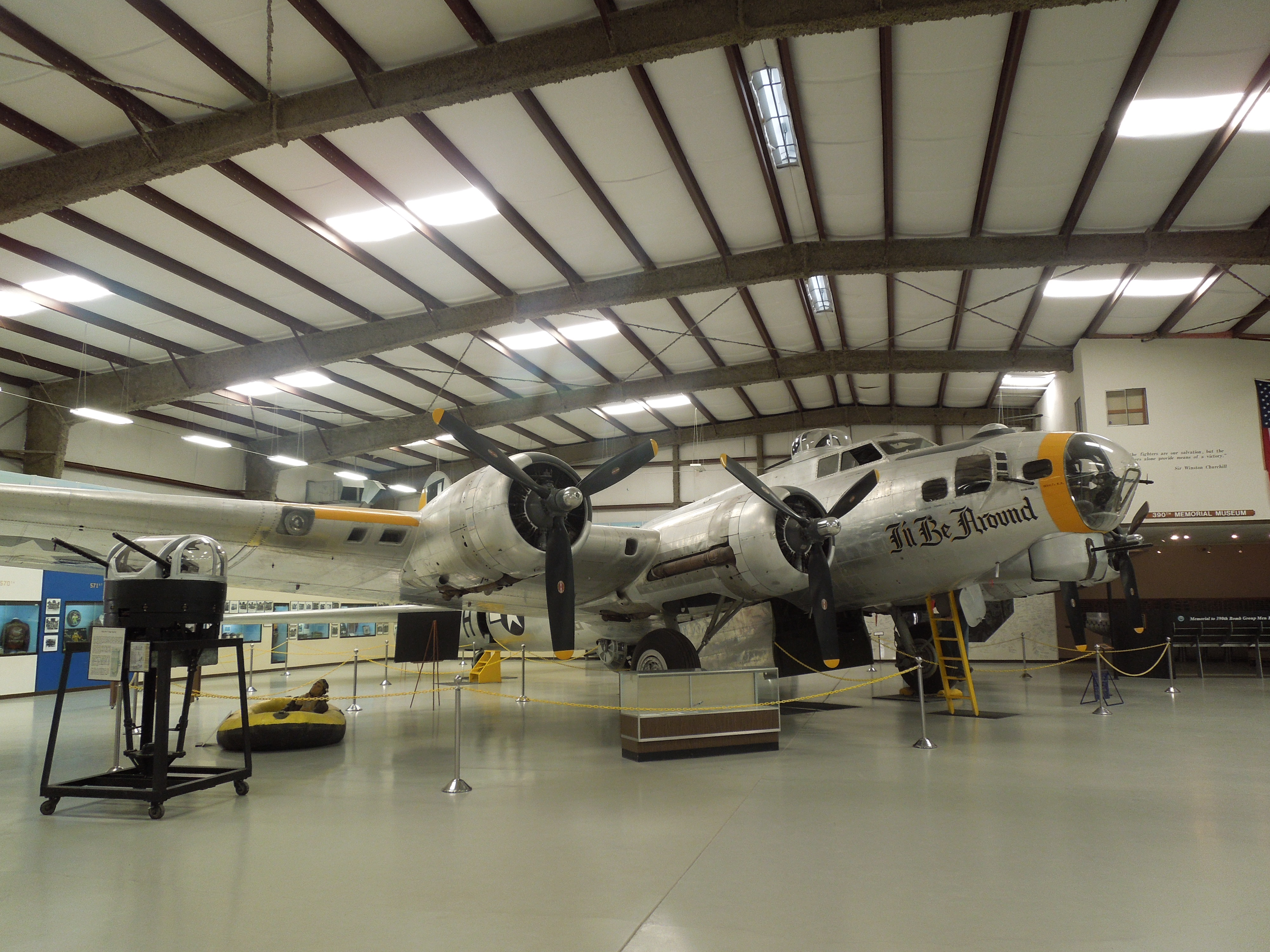 Pima Air & Space Museum